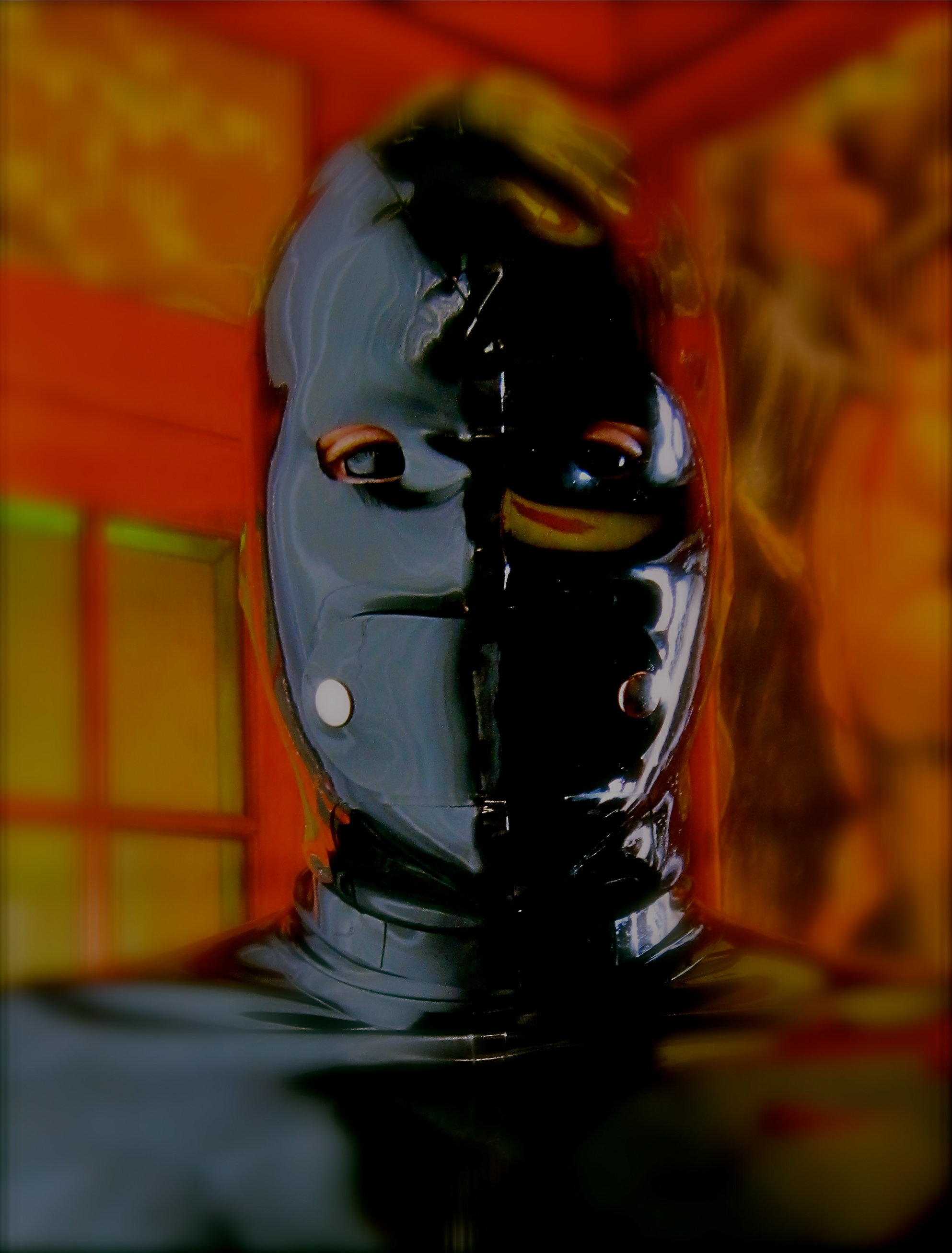 Rubber Man - American Horror Story